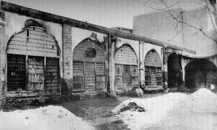 The BARACK SQUARE in Tabriz, Where the Bab executed. Pillar on the right marked X is the place where he was suspended and shot